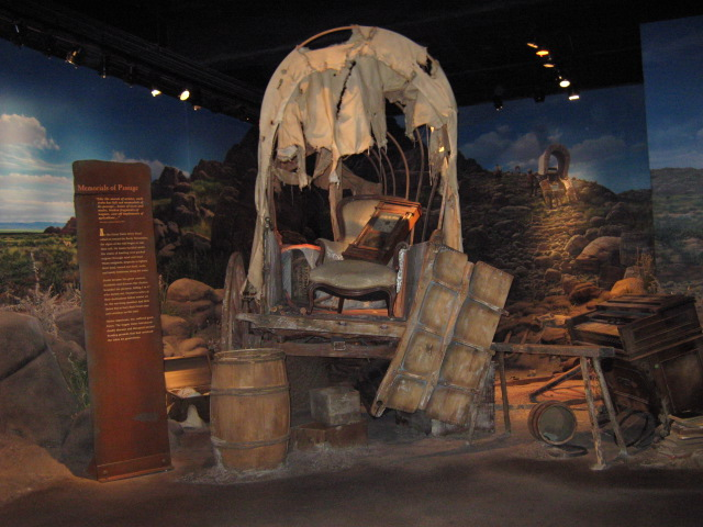 This is a photo taken at the Great Platte River Road Archway Monument